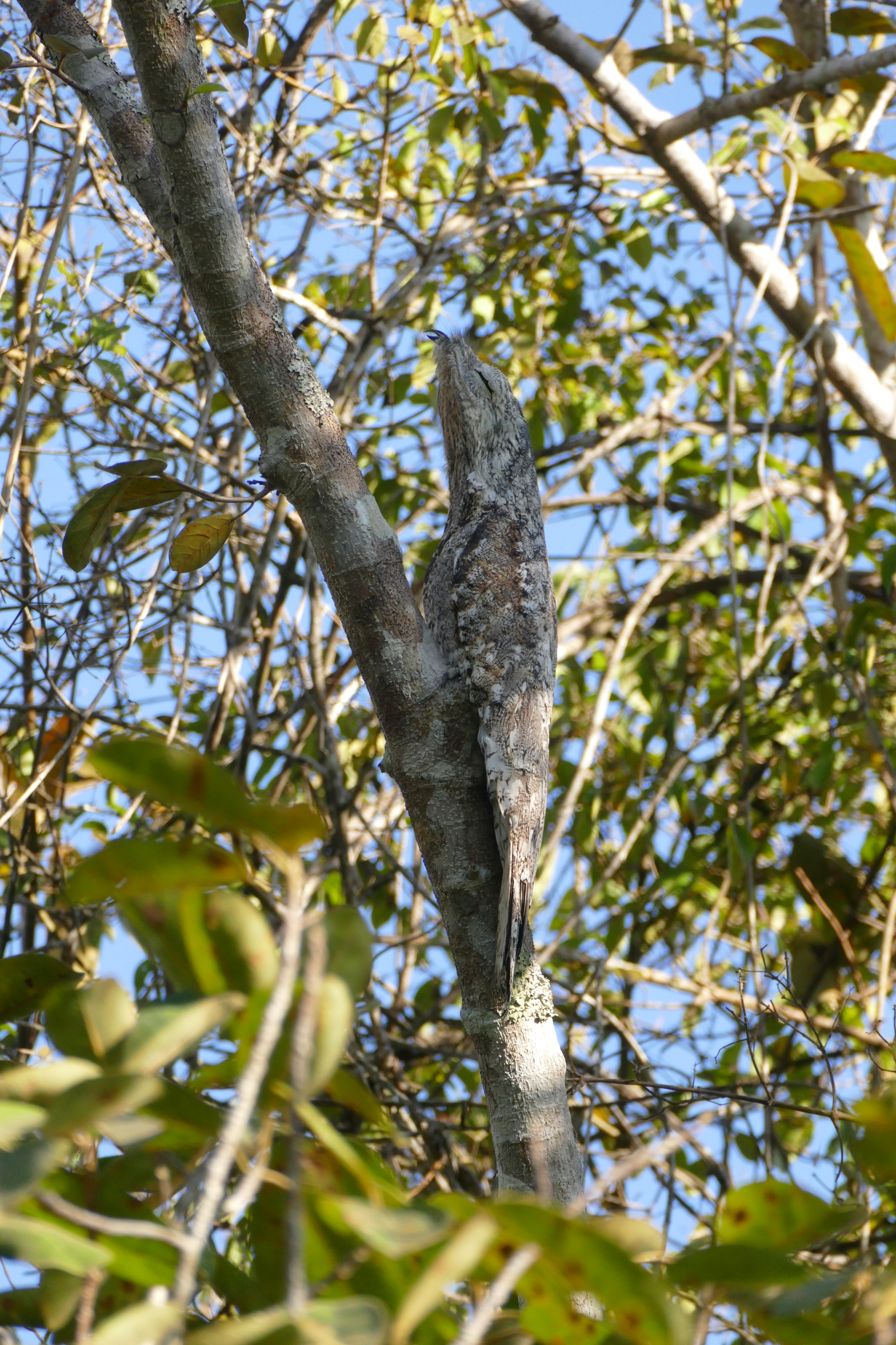 Pouso Alegre, Transpantaneira, Poconé, Mato Grosso, BRAZIL